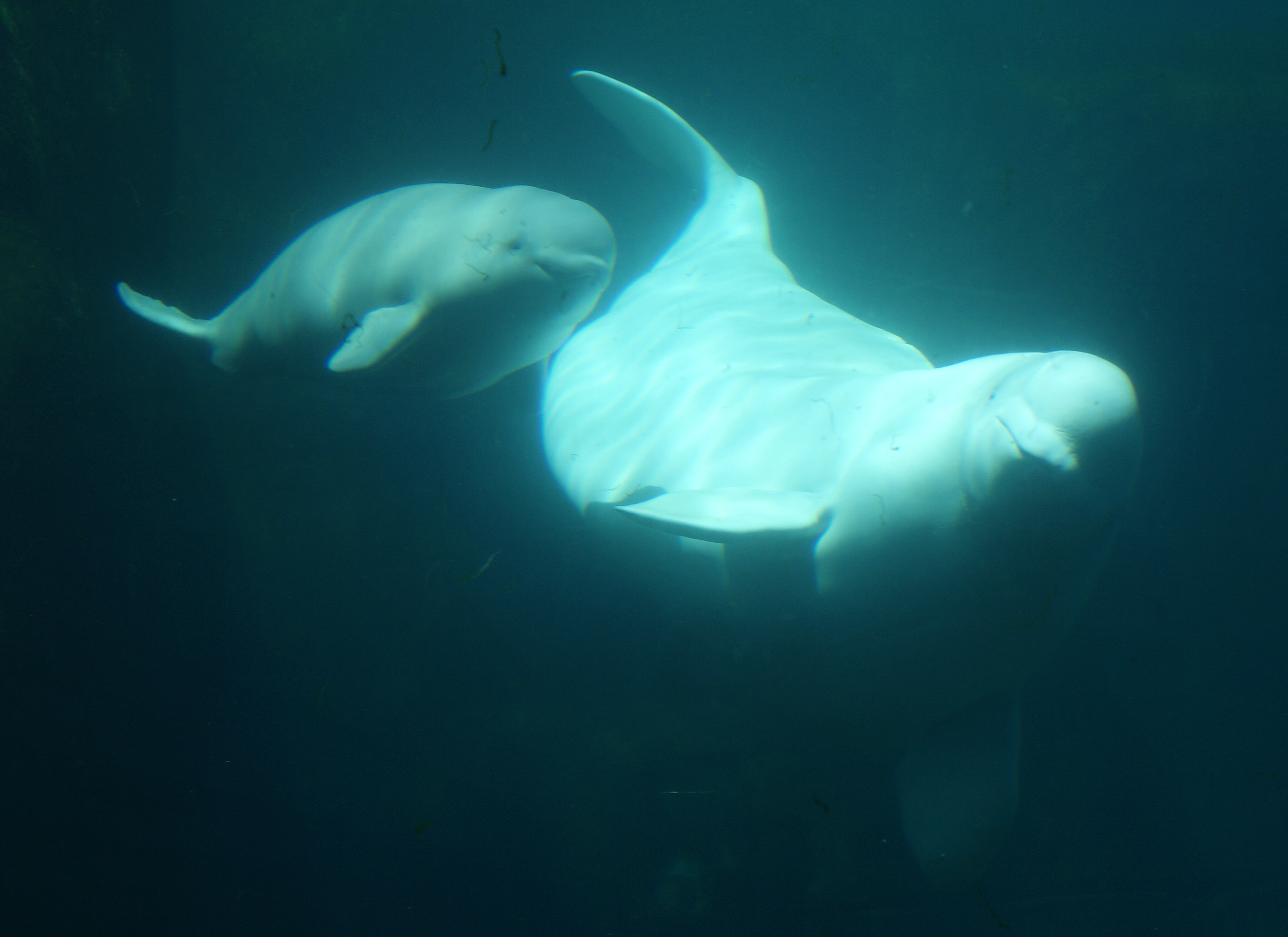 The beluga Aurora and her calf, Nala, at the Vancouver Aquarium, photographed July 3, 2009.